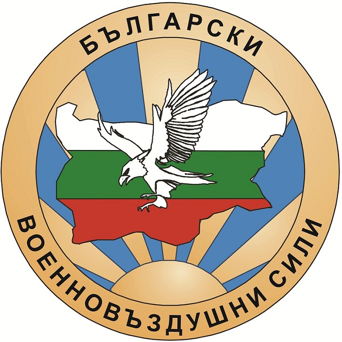 Logo of the Bulgarian Air Force